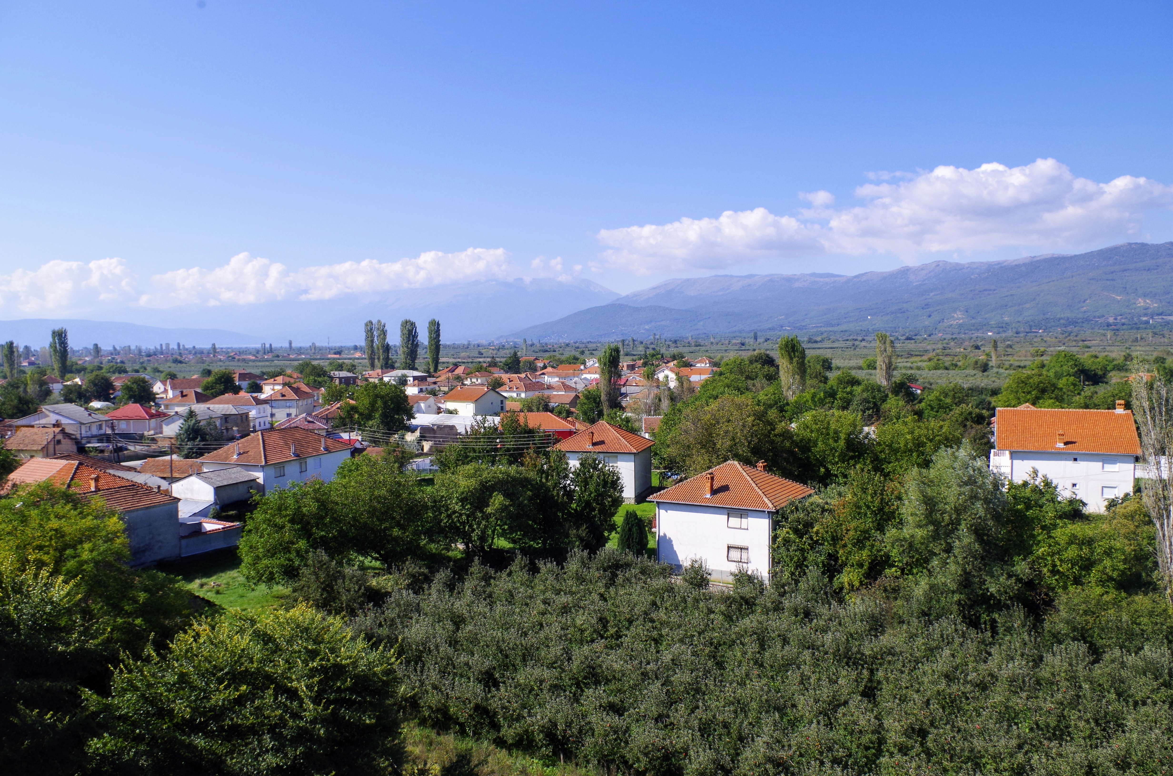 View of the village Carev Dvor